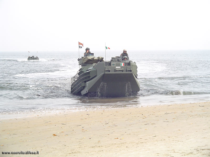 AA7V of the Lagunari Regiment on exercises; Italian Army.